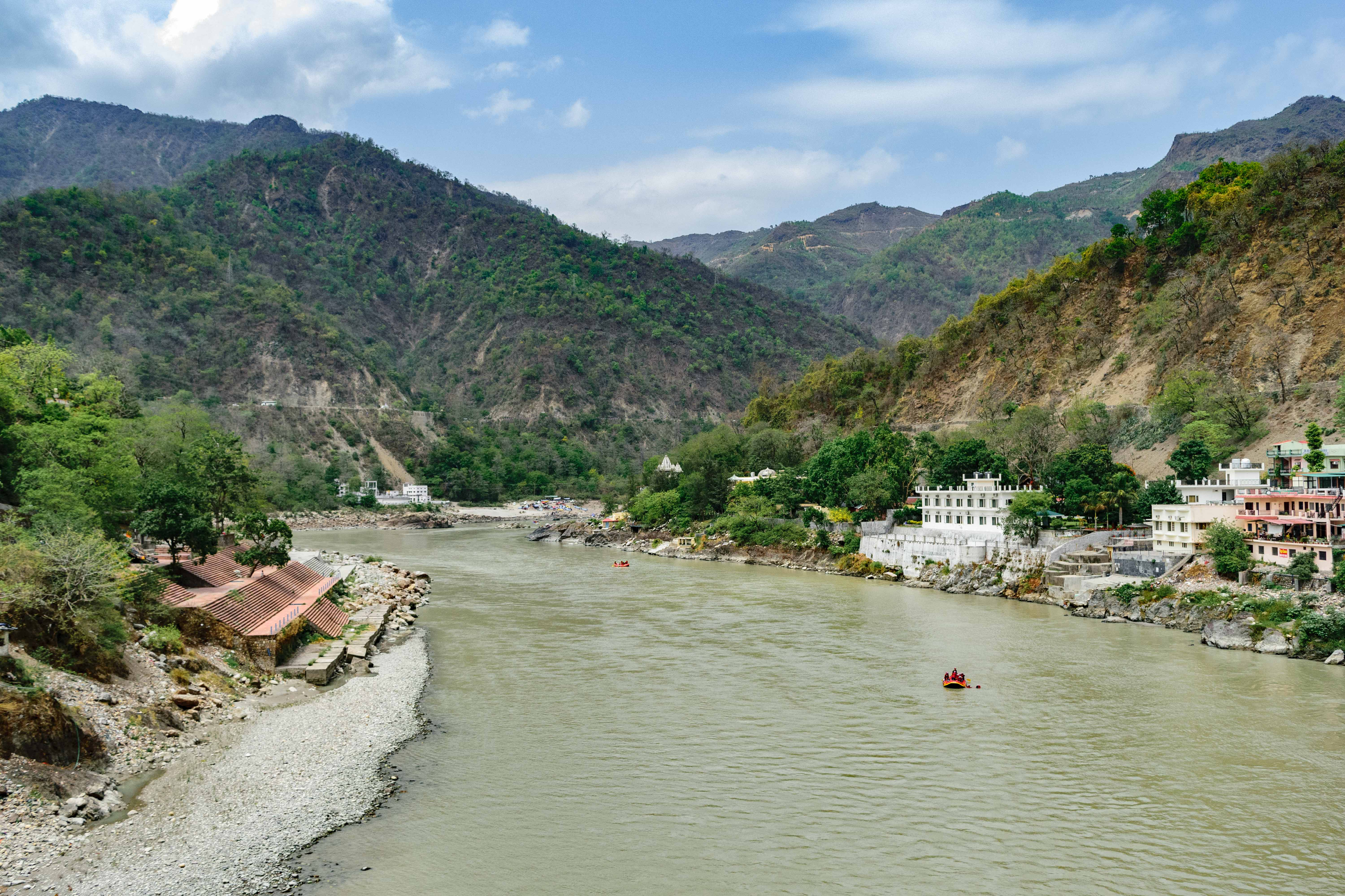 If heaven had visiting hours.